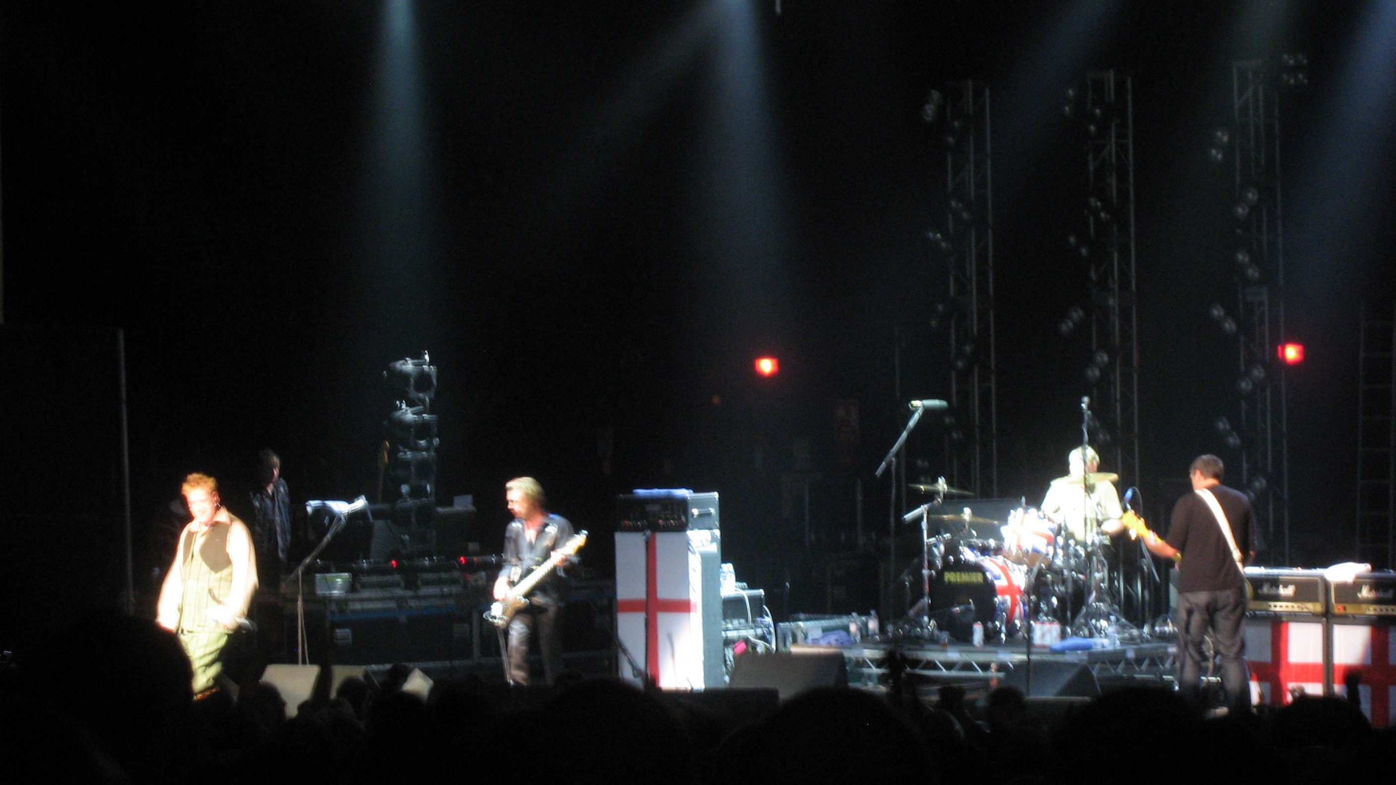 The Sex Pistols performing at Brixton Academy in Stockwell, London, on November 3, 2007.